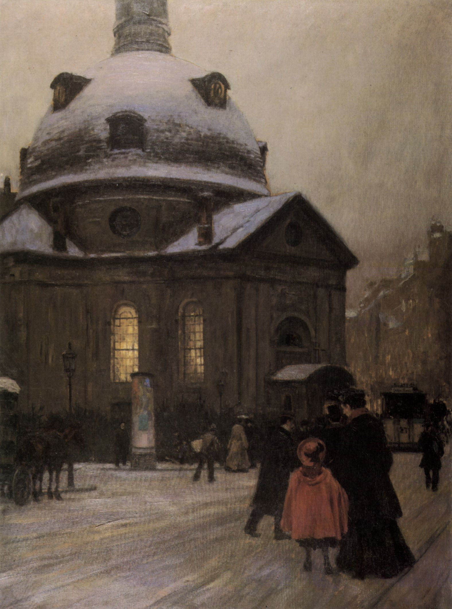 Bohemian Church on Christmas Eve (Bethlehemskirche)